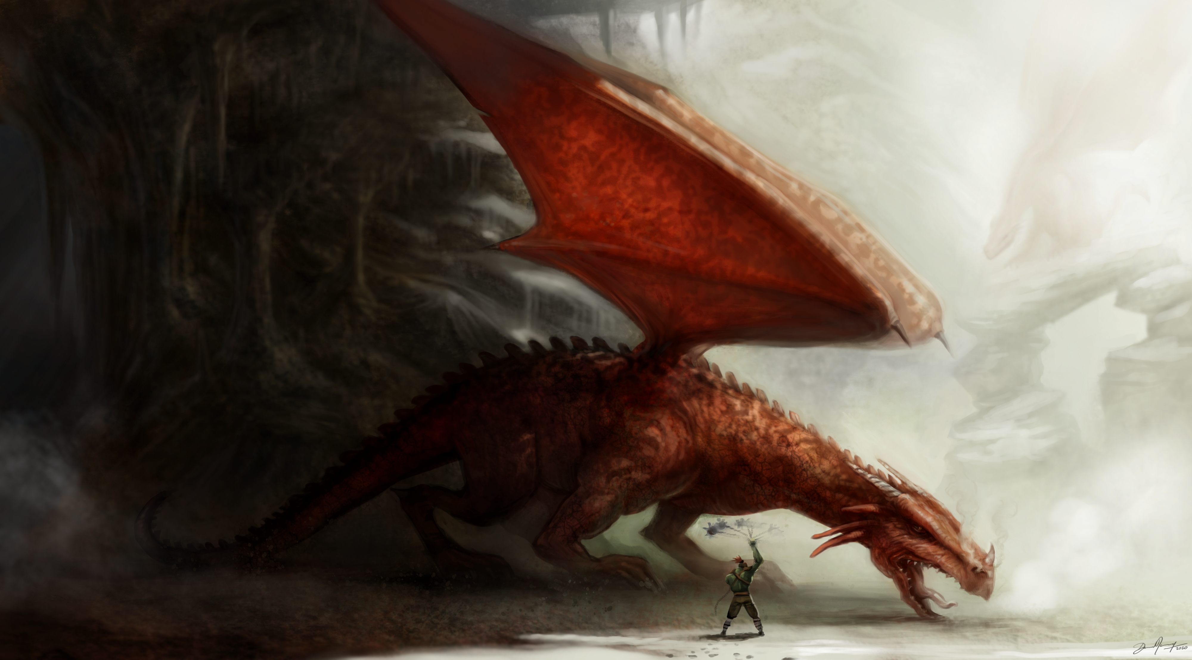 Artwork from the Open Movie Workshop 'Chaos&Evolutions'. A DVD training about digital painting, concept art, Gimp-painter 2.6 and Mypaint 0.7 .